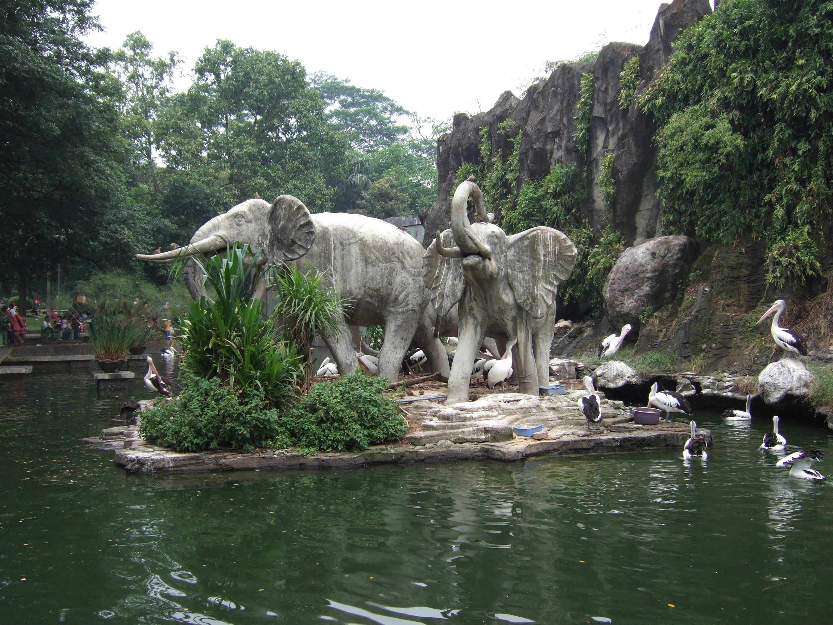 Main entrance, Ragunan Zoo, Jakarta, Indonesia